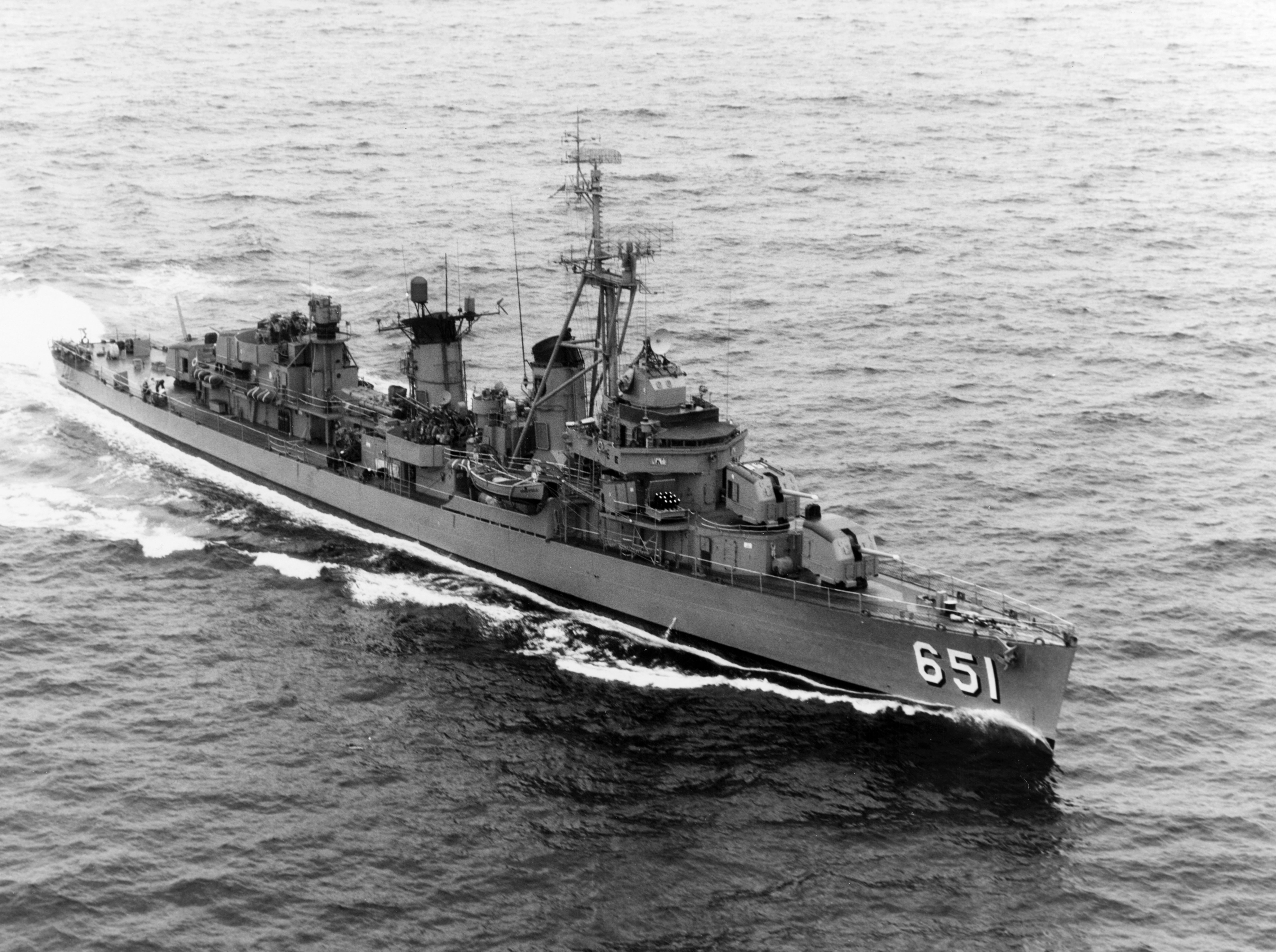 The U.S. Navy destroyer USS Cogswell (DD-651) underway off the coast of California (USA) during sea exercises on 26 January 1963.